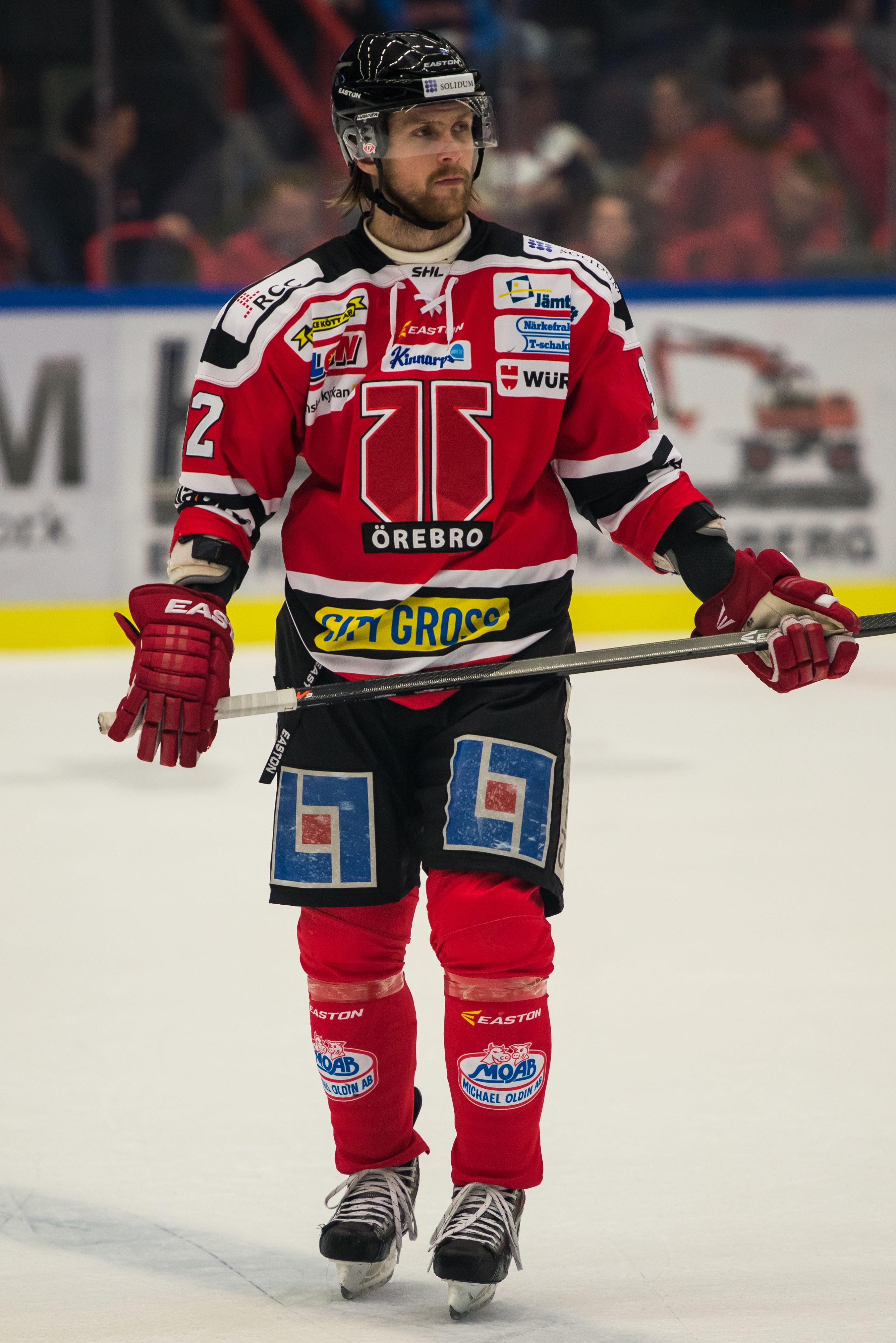 Robin Dahlstrøm playing for Örebro HK in SHL (Sweden's highest league) against MODO Hockey in Behrn Arena 2013-10-05.